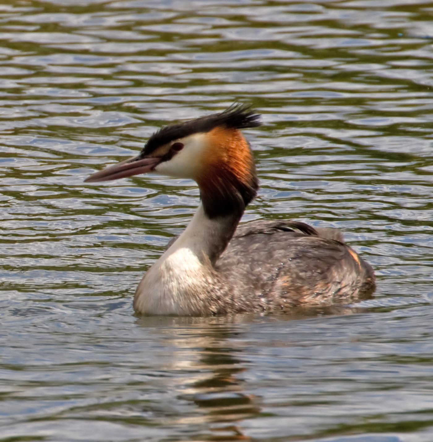 Male Great Crested Grebe